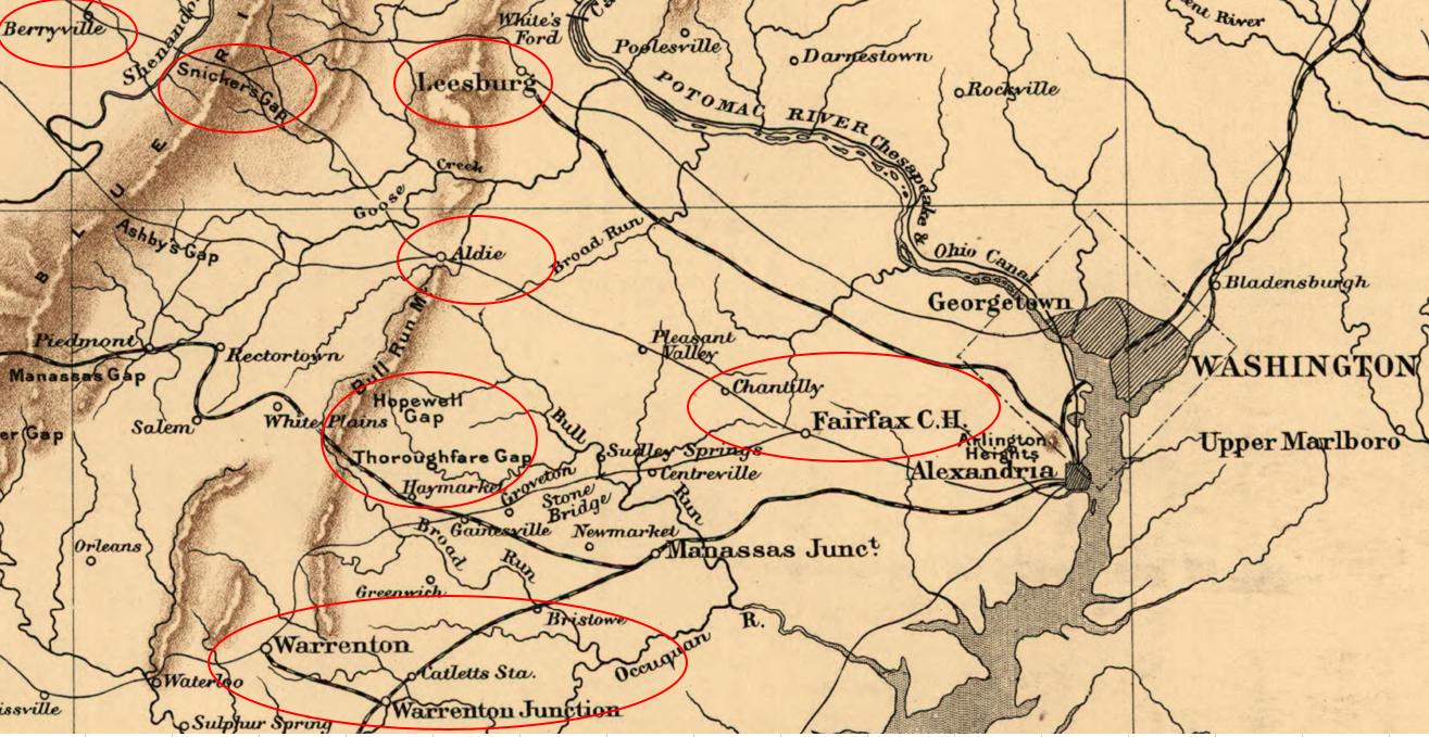 This map shows the area patrolled by the 5th NY Cavalry when they were assigned to the defense of Washington beginning September 1862. Some of the skirmish areas have been circled.